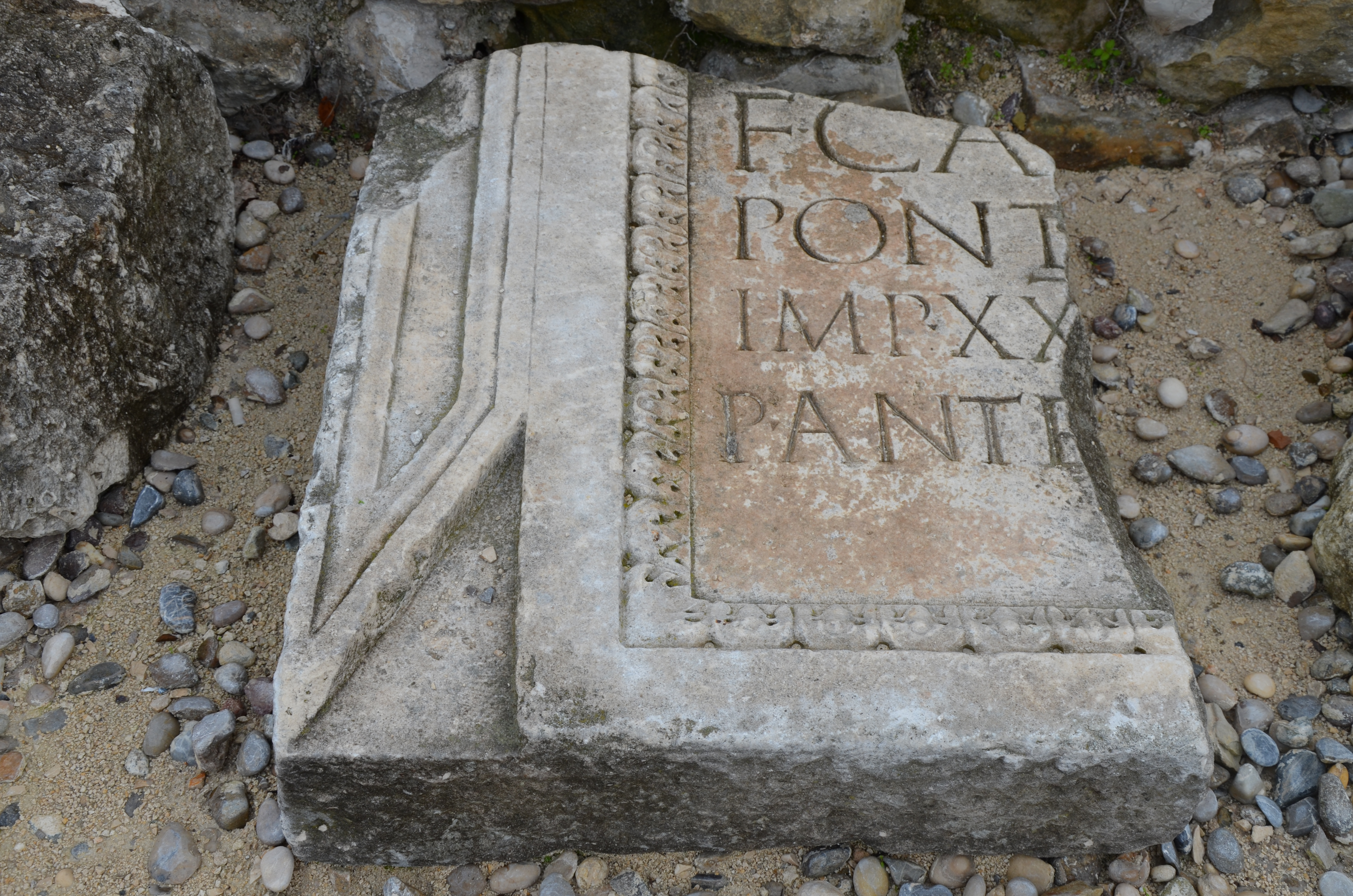 The Roman forum remains of Iader, Zadar, Croatia